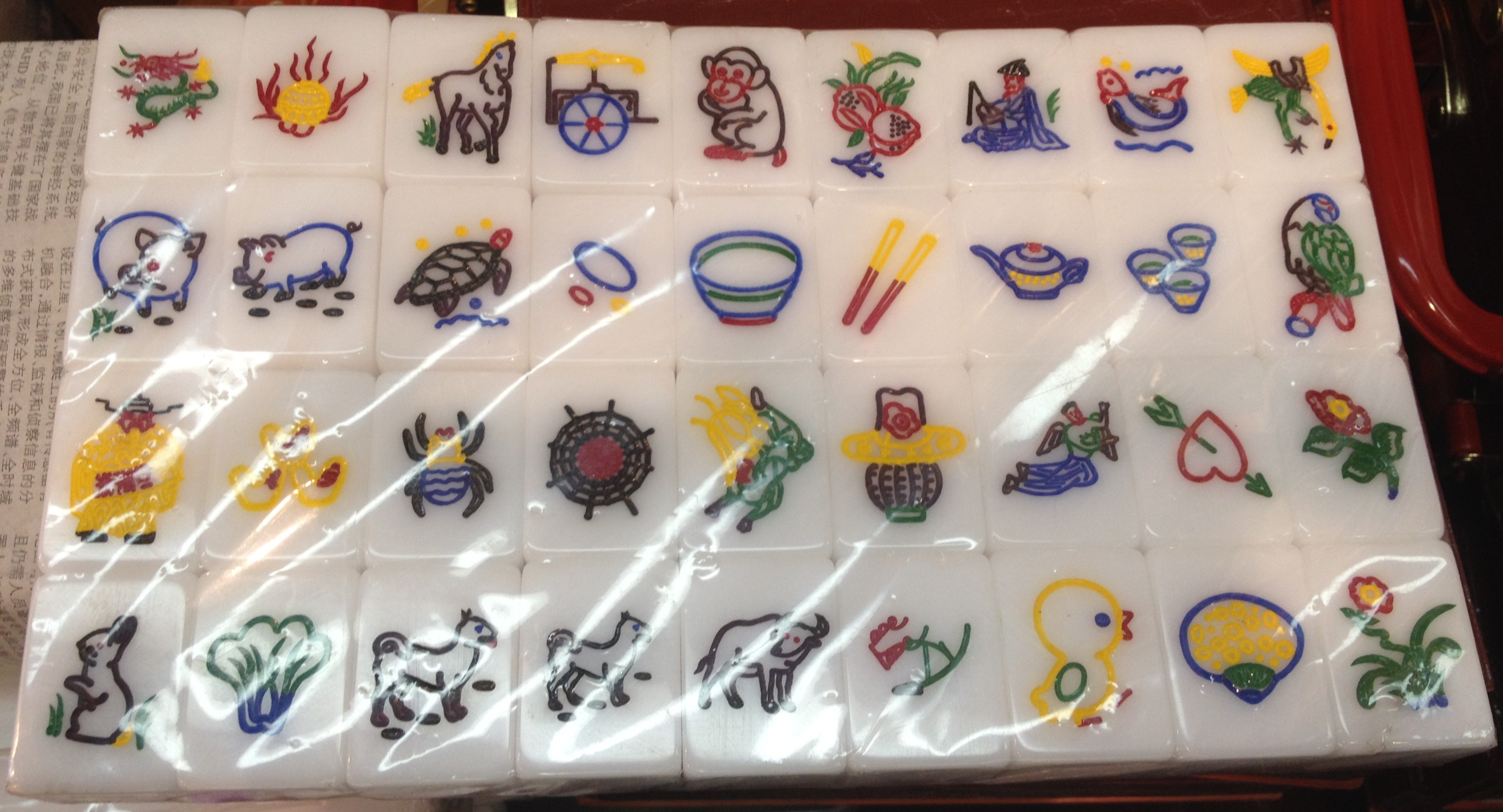 Miscellaneous animal tiles used in South East Asia. Some are more common than others.